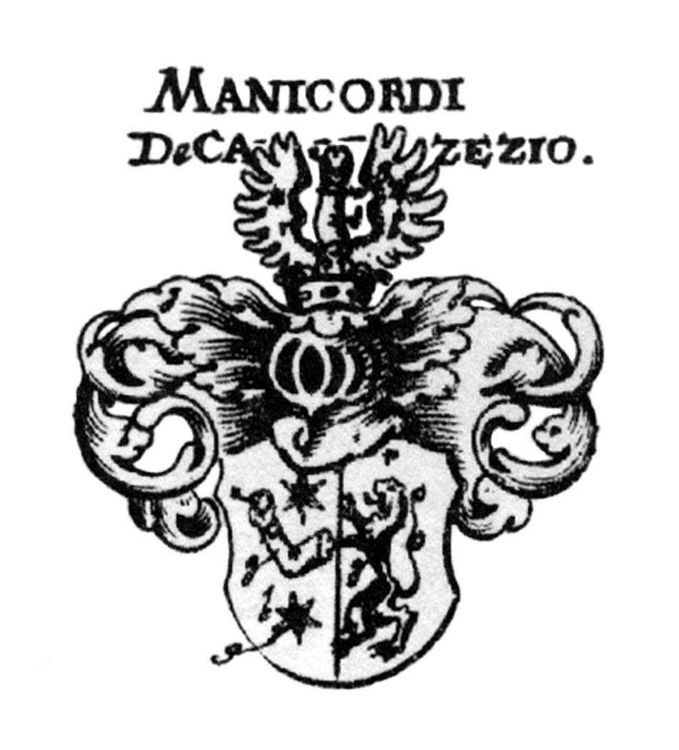 Coat of arms of Manikor (Manicordi)